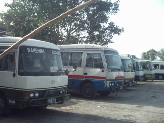 Tourism buses at Iqbal Park. Picture taken by Pale blue dot on June 10, 2004.